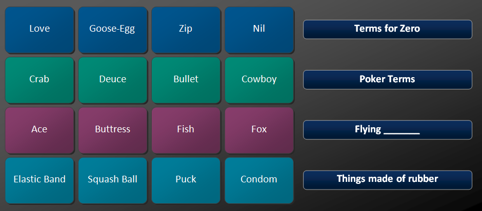 Only Connect Round 3 - solved